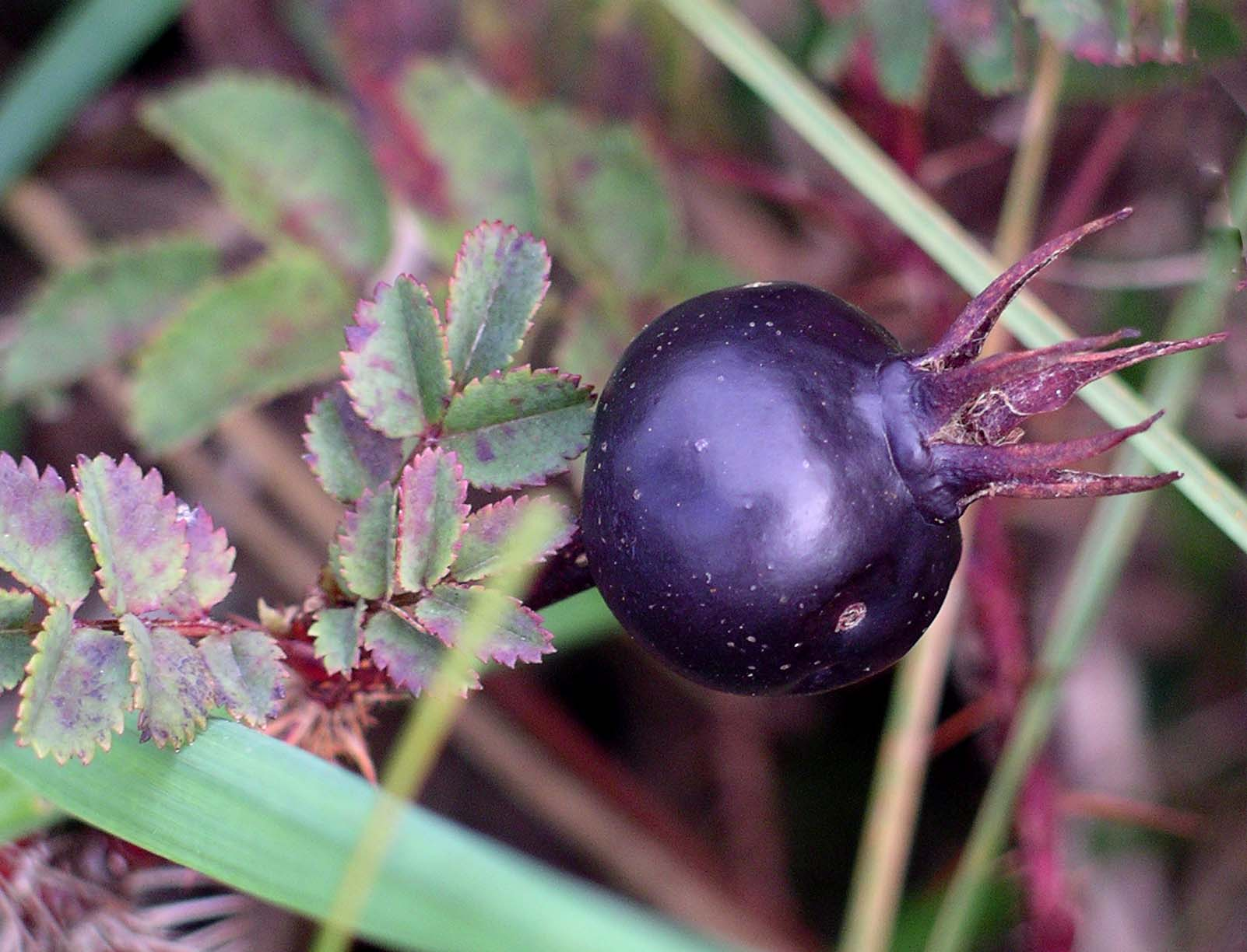 Fruit (hip) of Rosa pimpinellifolia growing on Newborough Warren